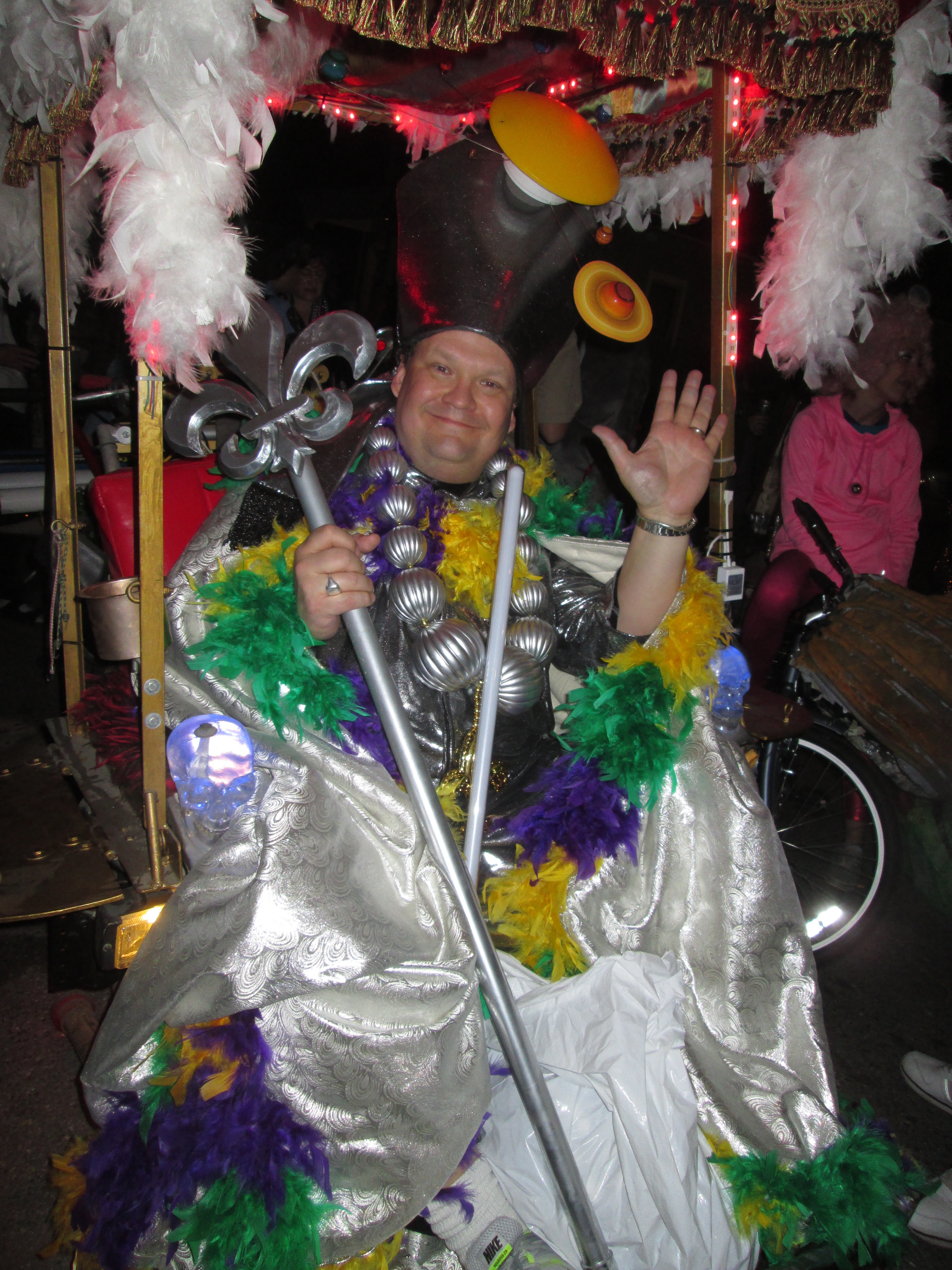 Comedian Andy Richter reigns as "Pope" of the "Intergalactic Krewe of Chewbacchus" 2015 Carnival parade, Bywater section of New Orleans.